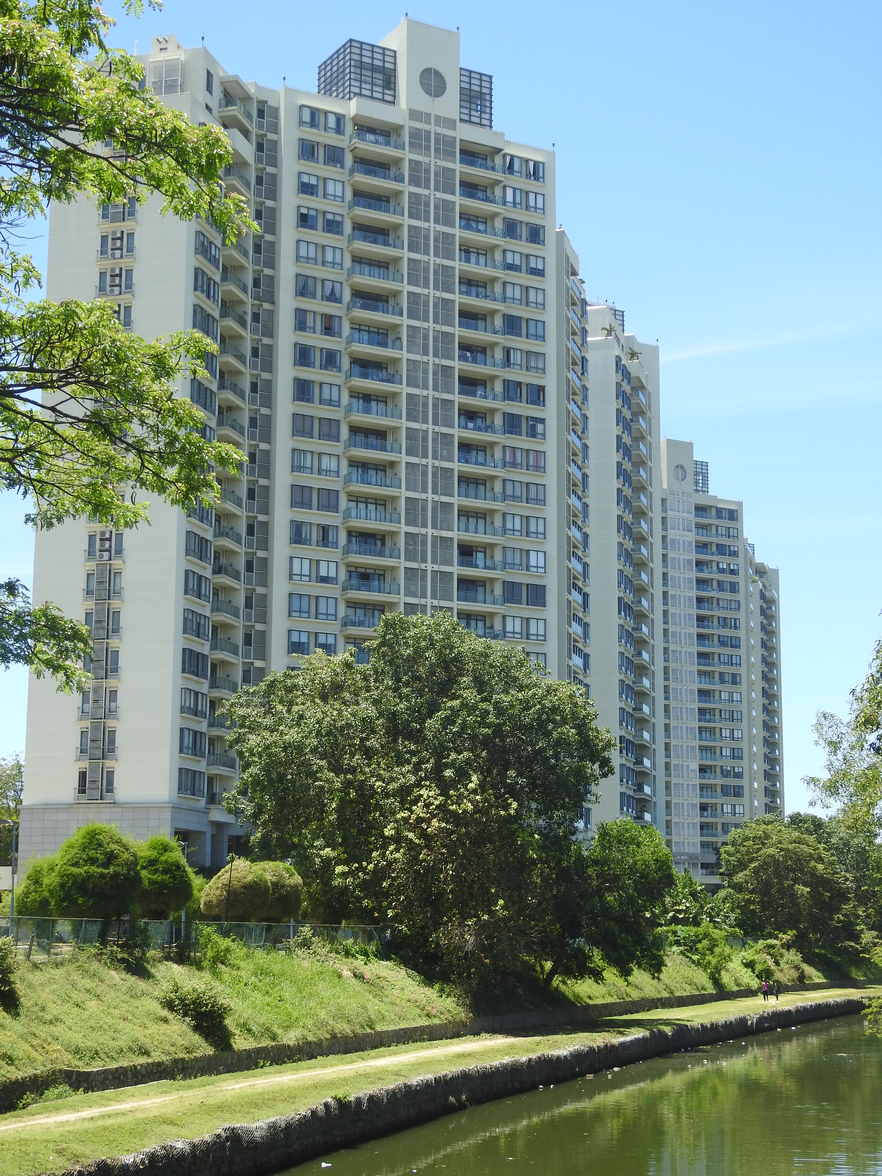 Photos of current/future skyscrapers (and its surroundings) in Colombo, taken by User:Rehman and User:Azeez as part of a photowalk project by Wikimedia Community User Group Sri Lanka. The photowalk covered most of the tallest structures in Colombo that are either completed or under construction. Further information on the subject(s) of the photograph can be found in the category/ies of this file.